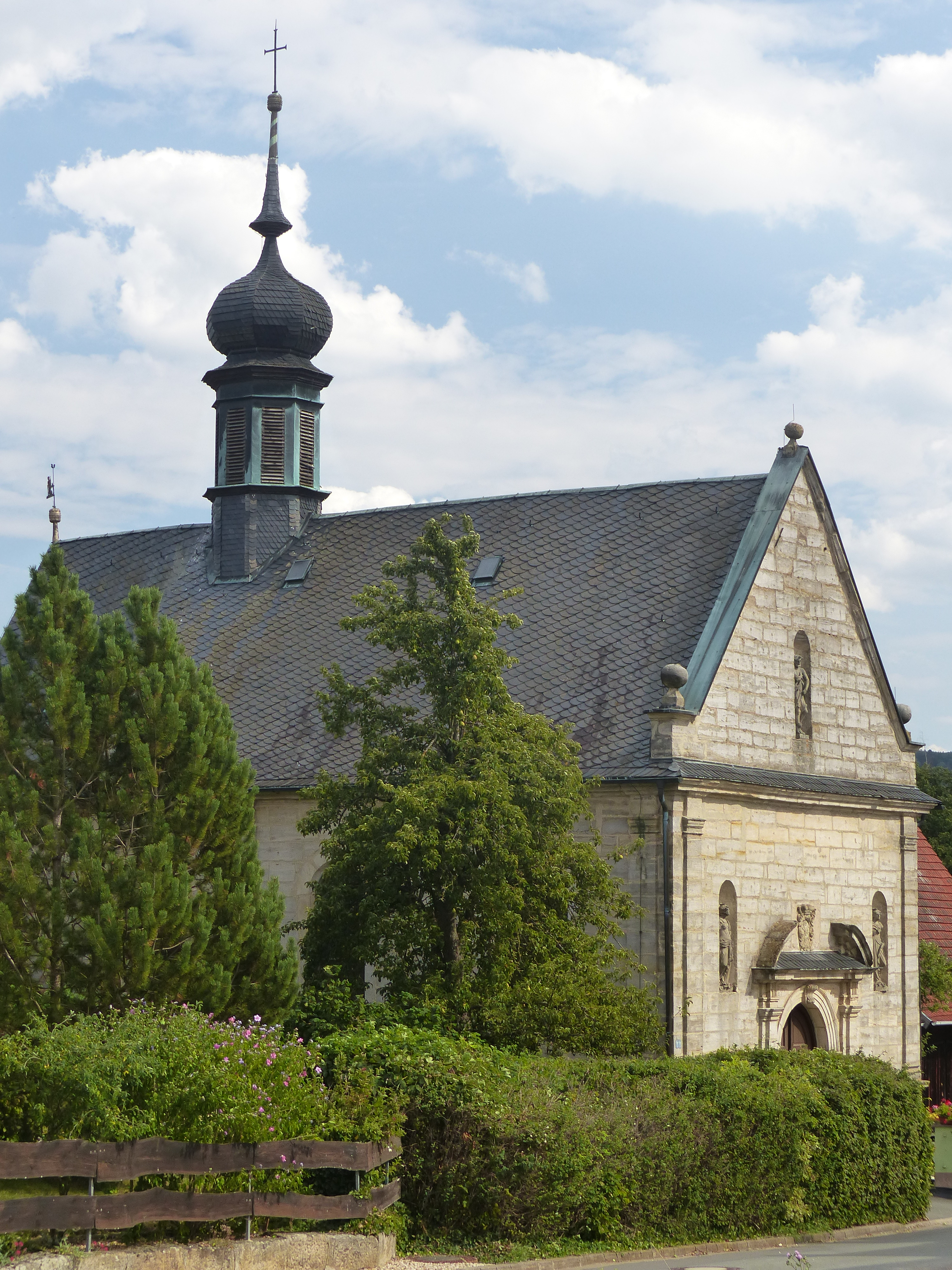 The northwestern view of the church of Schirnaidel, a village and district of the municipality of Eggolsheim.